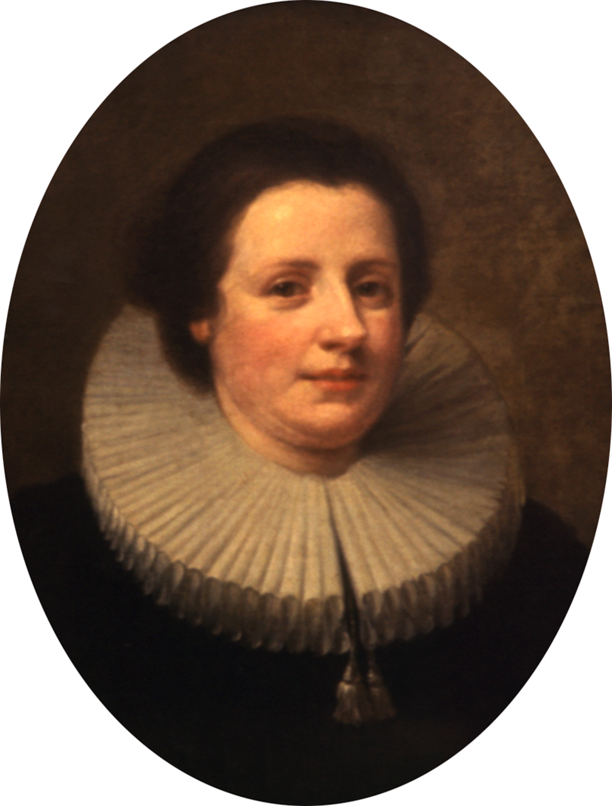 Portrait of Mary Lewis, the artist's wife's cousin by William Hogarth